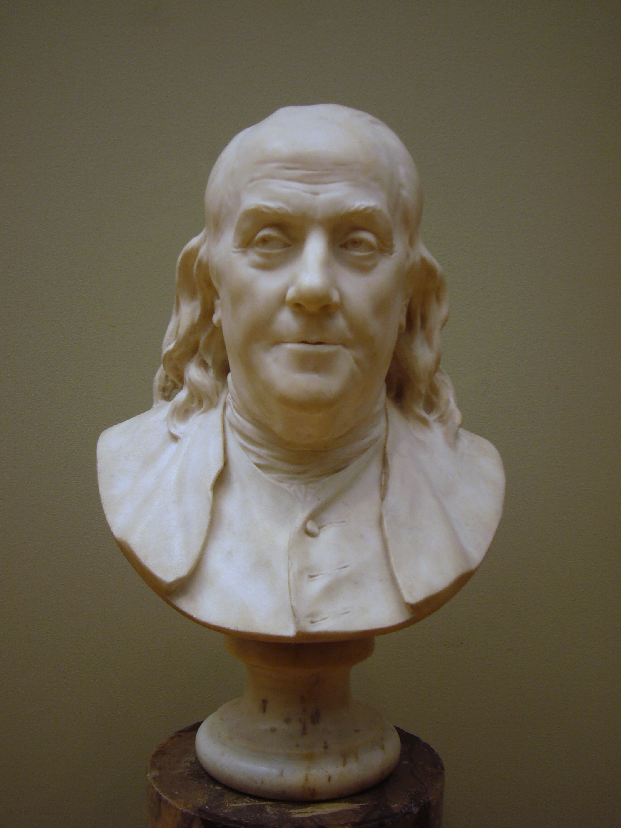 Jean-Antoine Houdon: Benjamin Franklin. Marble bust, 1778. H. without base 17 1/2 in. (44.5 cm). More information online by the Metropolitan Museum of Arts.